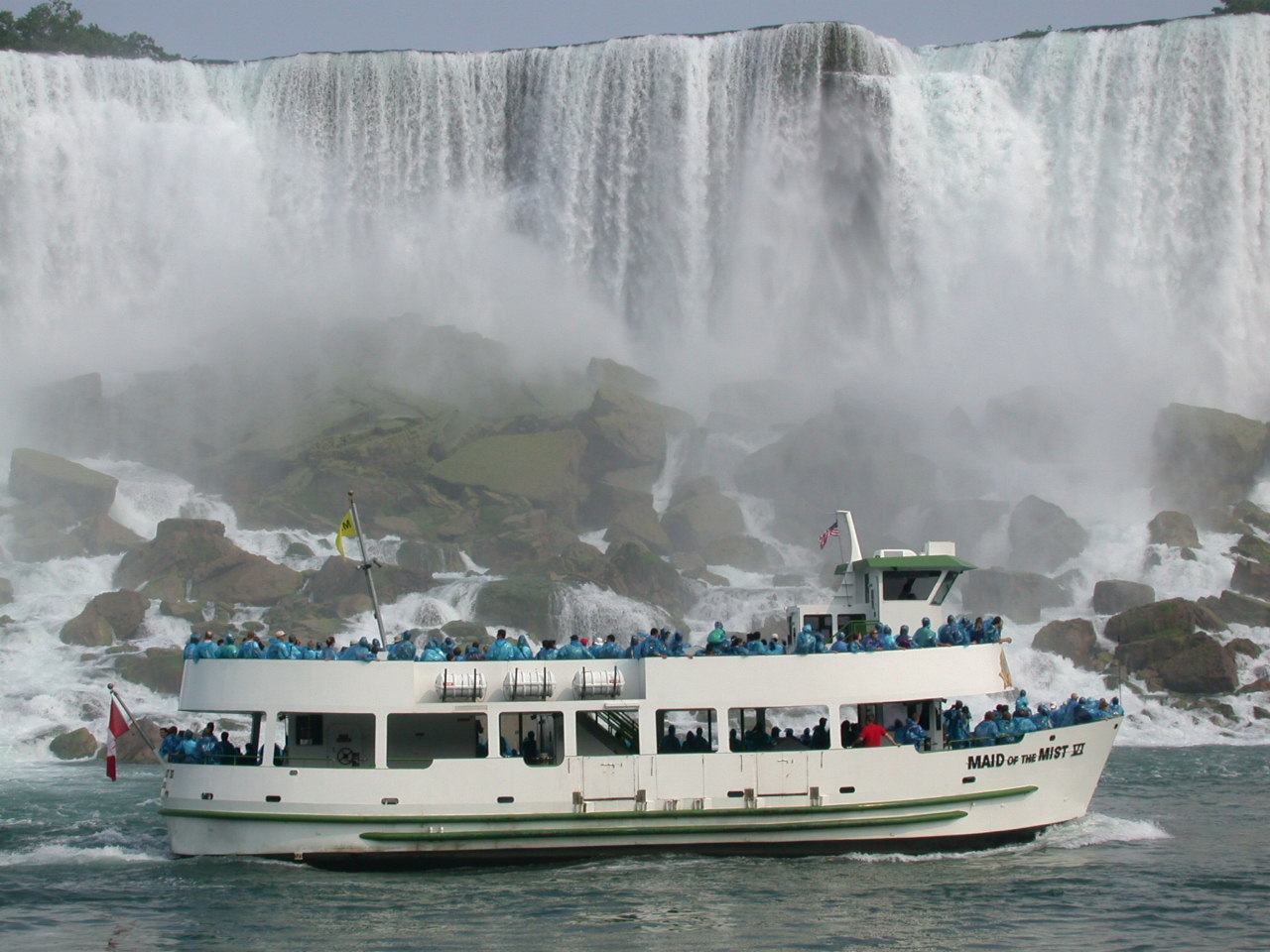 Niagara Falls, tourist ship.